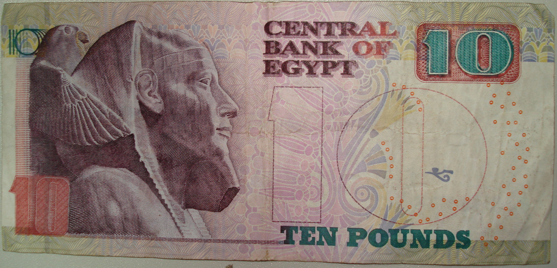 10 Egyptian pounds bill (back)